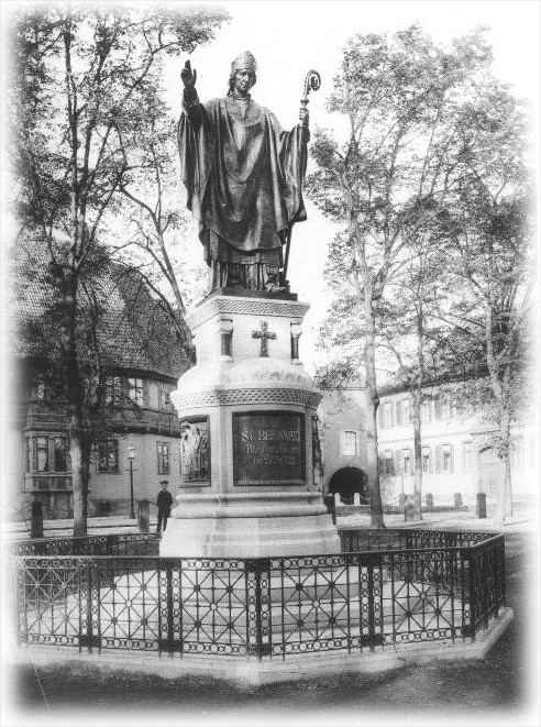 Statue of St. Bernward, Hildesheim, original position (1893)